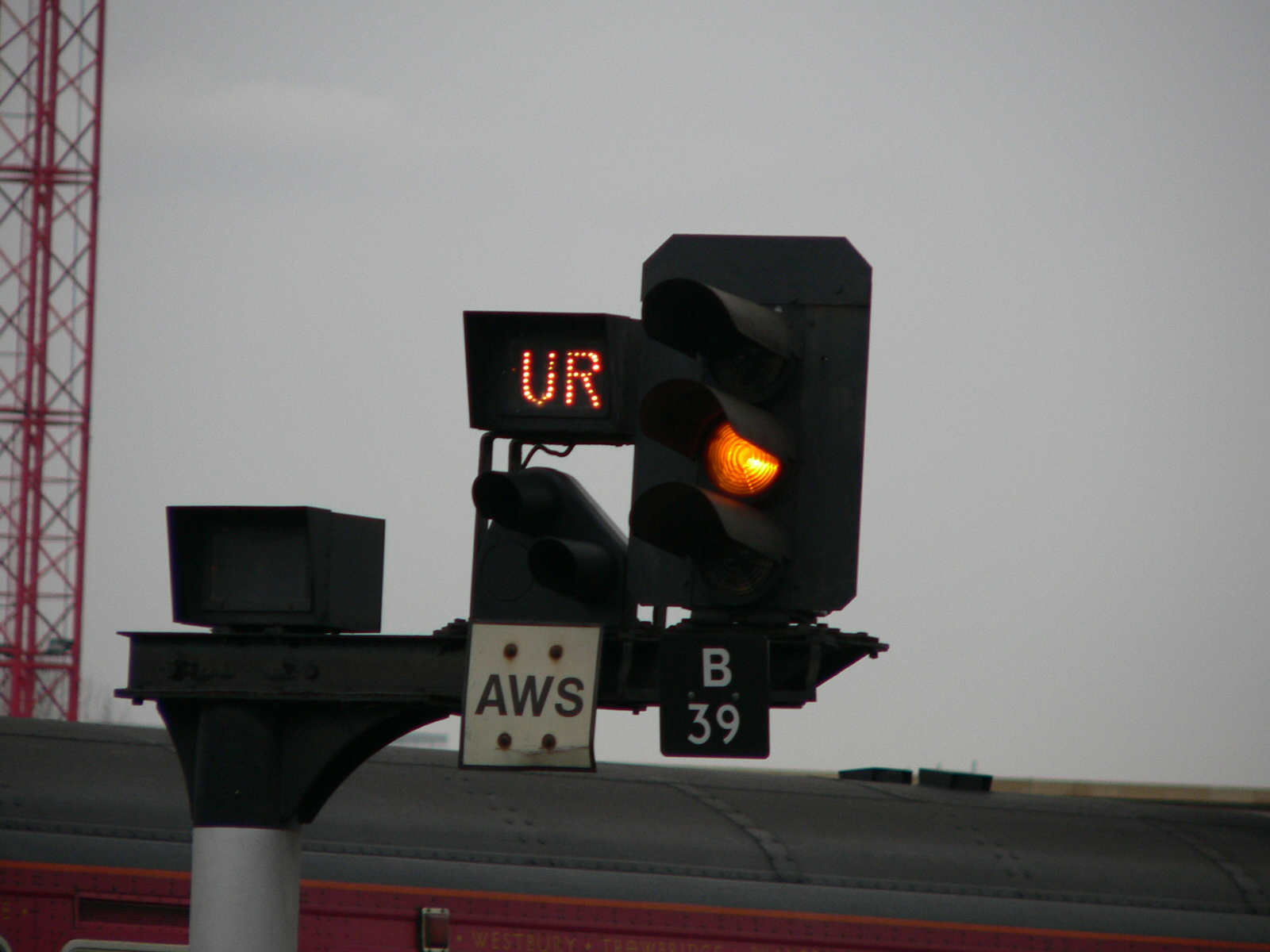 Signal B39 at the north end of platform 3 at Bristol Temple Meads station. In this photograph the three-aspect signal is displaying a caution aspect with a route indication of "UR" for the Up Relief line.